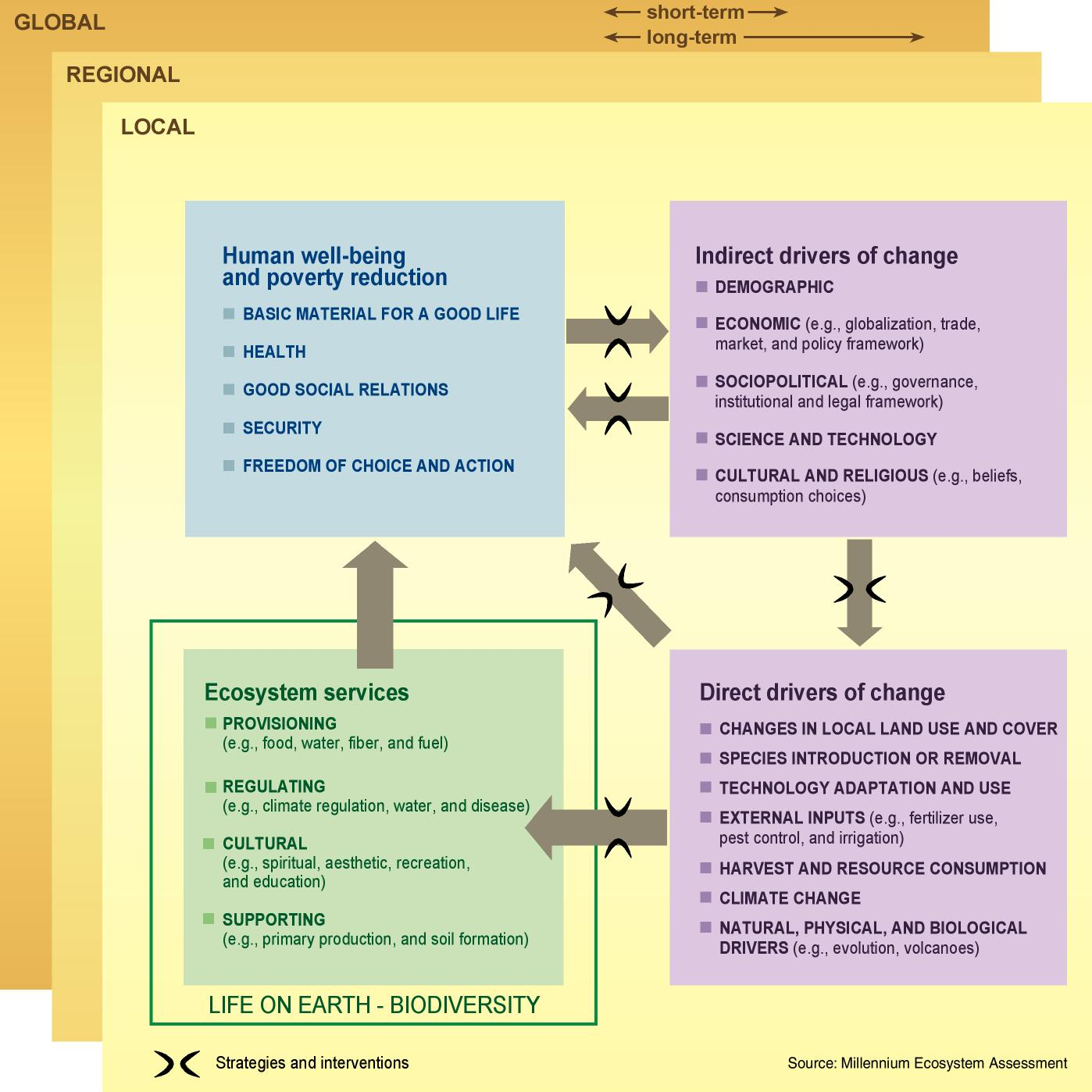 This image is part of the Millennium Ecosystem Assessment reports on Biodiversity and human well-being. It illustrates the relationship between biodiversity, ecosystem services, human well-being, and poverty. Moreover it shows areas where conservation strategies, planning, and intervention can alter the drivers of change from local, regional, to global scales.